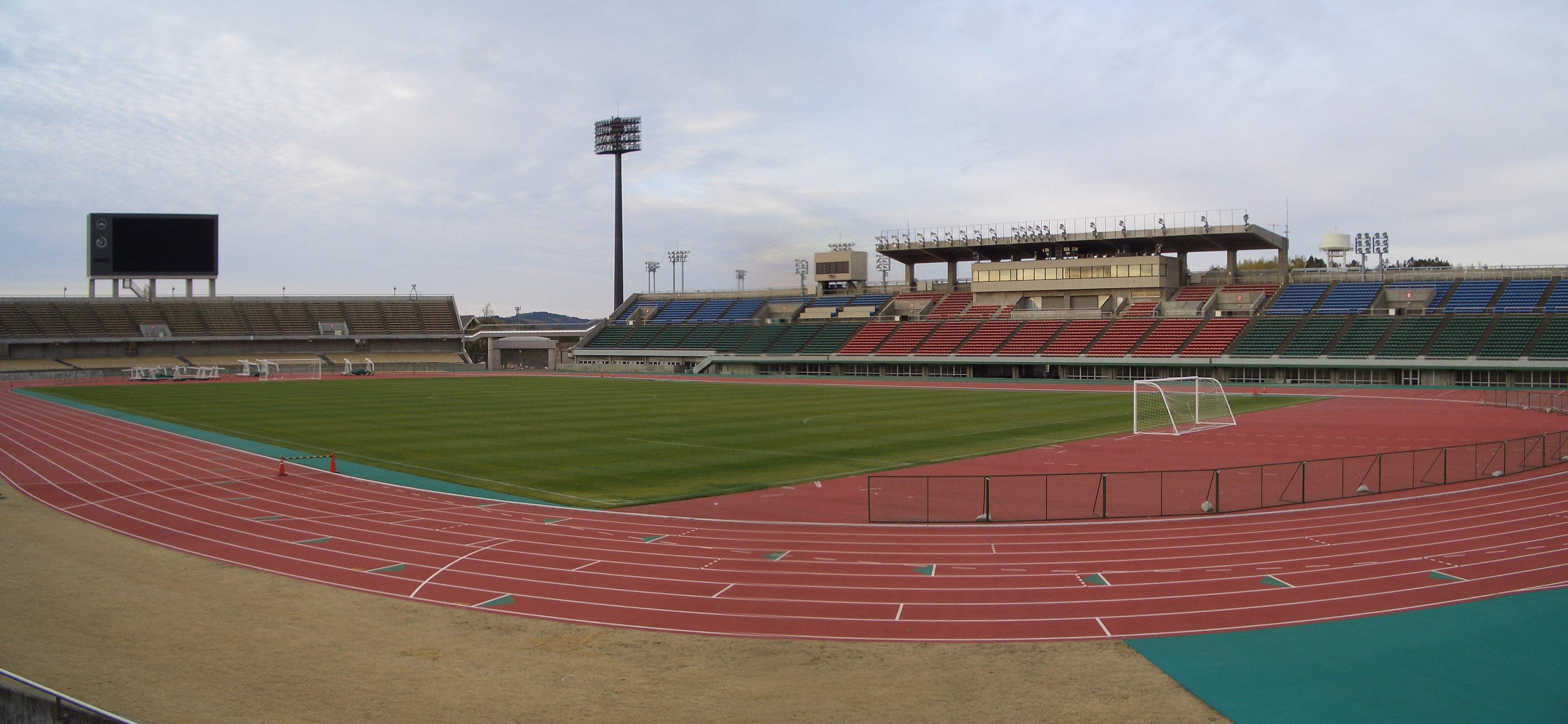 Haruno Sportspark MainStadium. Kochi-shi,Japan